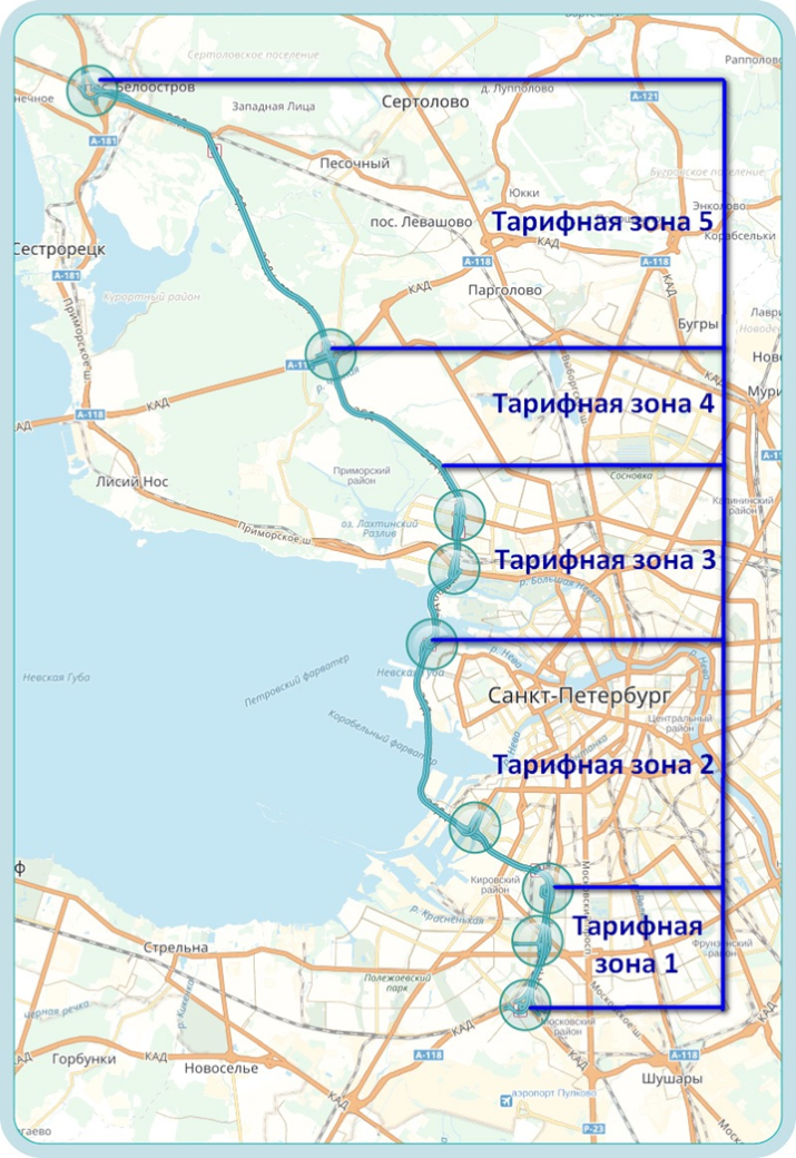 Деление на зоны ЗСД